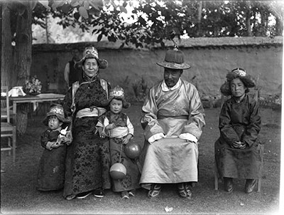 Family of 14th Dalai Lama (according to H. Richardson), parents and one child sitting, two other children standing. Taken in a ?garden.